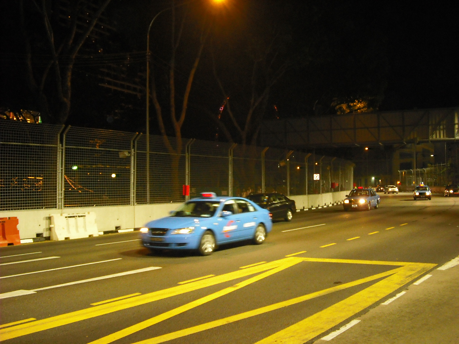 Singapore Street Circuit at night before race